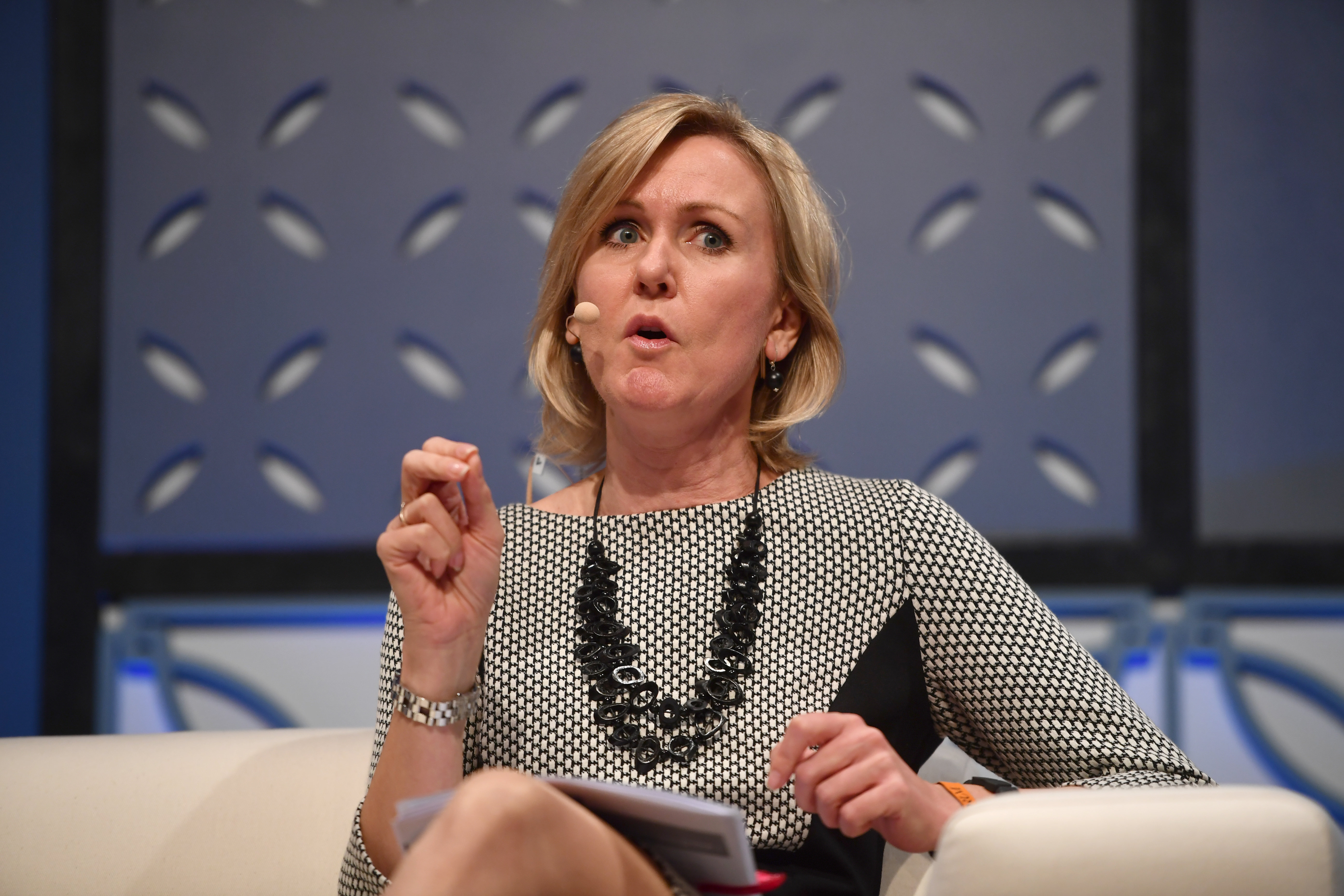 7 November 2018; Ann Mettler, European Commission, on the Forum Stage during day two of Web Summit 2018 at the Altice Arena in Lisbon, Portugal. Photo by David Fitzgerald/Web Summit via Sportsfile